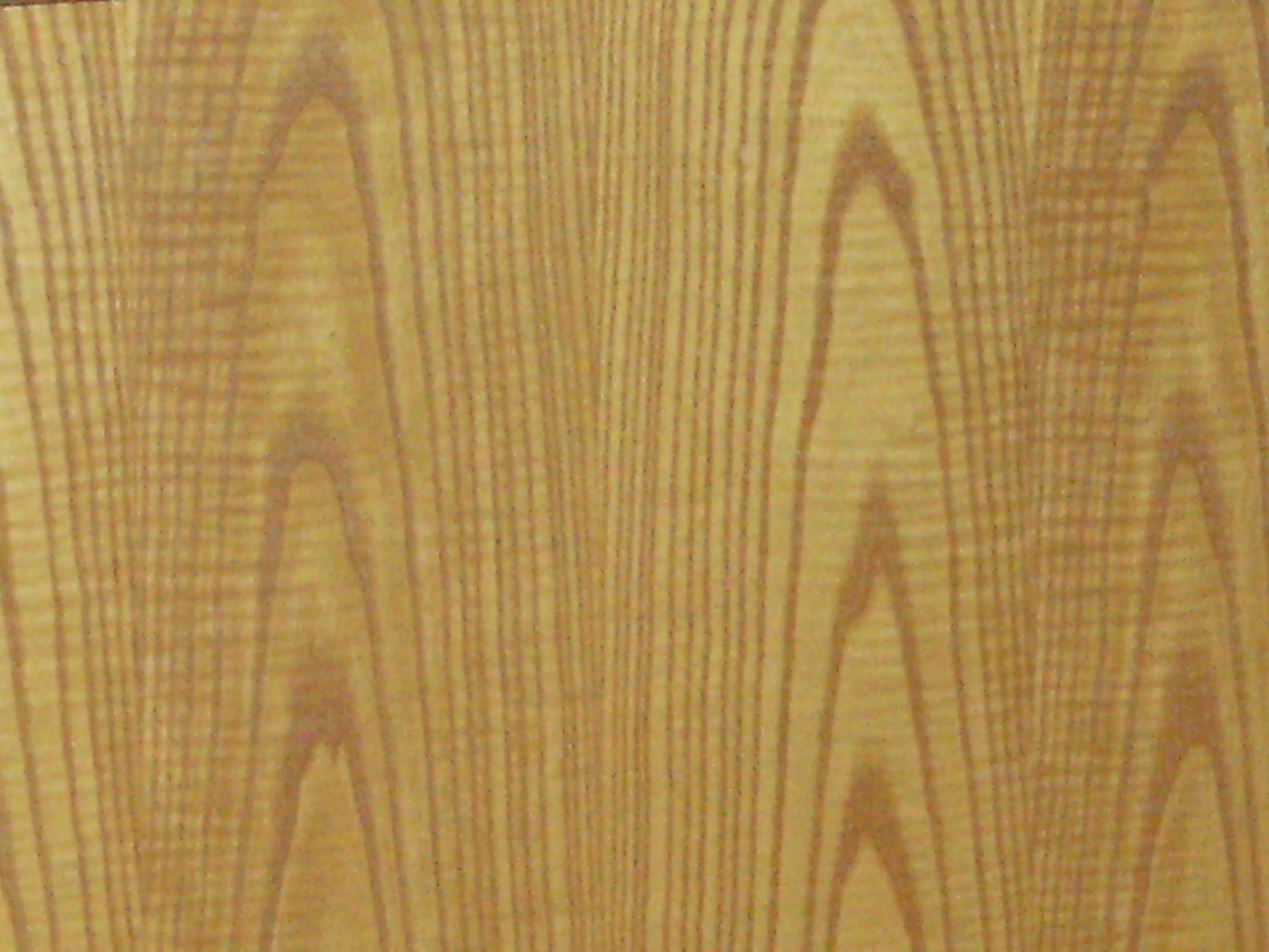 Fake wood.